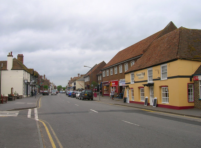 High Street For a small town New Romney still retains a reasonable selection of shops and services along its High Street. The town grew up during the Saxon period into a busy port at the mouth of the Rother. However, the tidal inlet gradually silted up so by 1258 ships could no longer navigate it and after a particularly violent storm in 1287 the shingle bar shifted closing the estuary for good and forcing the Rother to enter the sea near Rye. Unsuccessful attempts were made to shift the silt and shingle but to no avail and the town shrank in size and importance though it still remains the main centre of Romney Marsh.